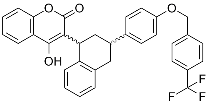 (1RS,3RS;1RS,3SR)-Flocoumafen, a second generation coumarin anticoagulant.